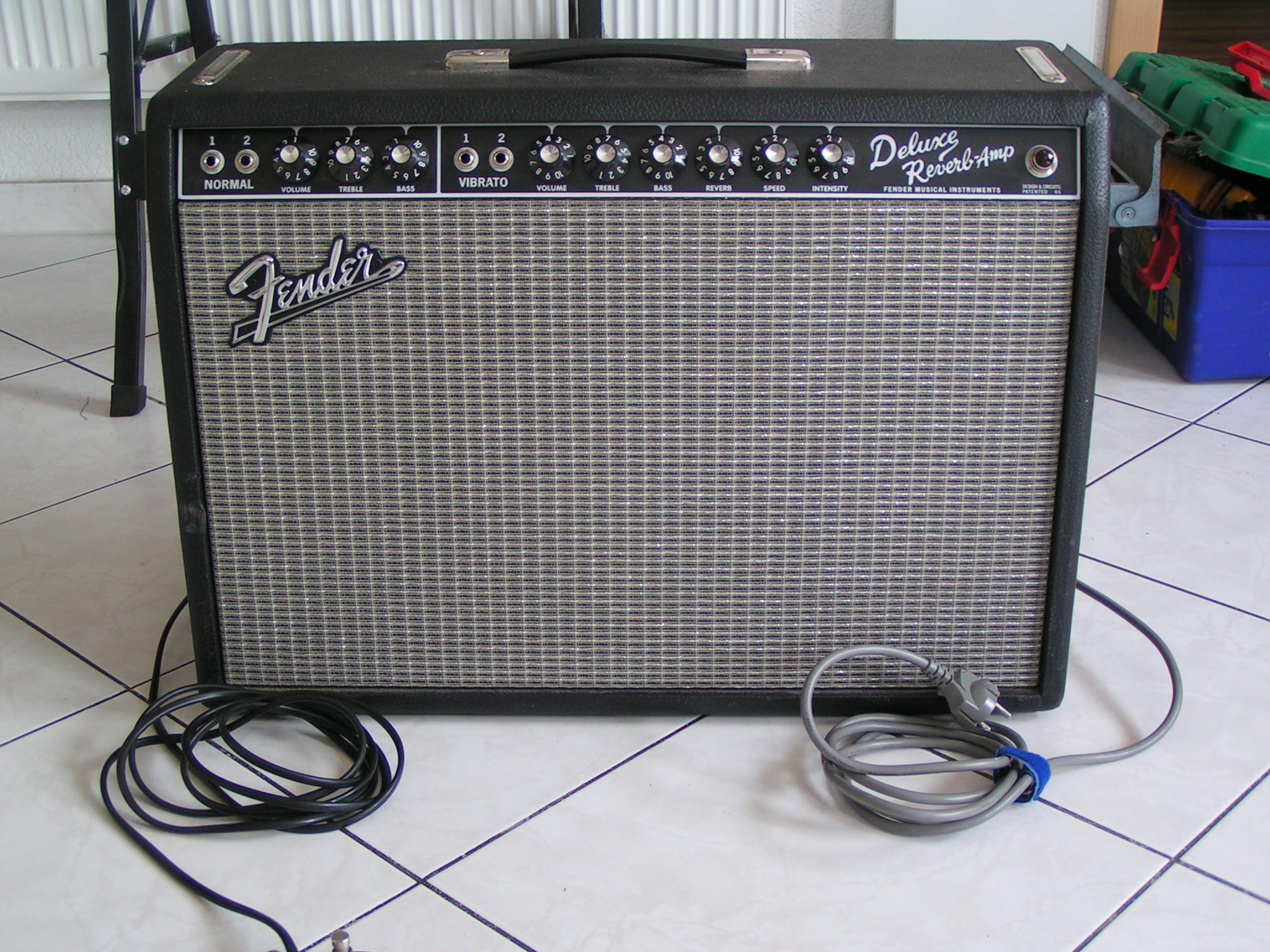 Fender Deluxe Reverb Amp